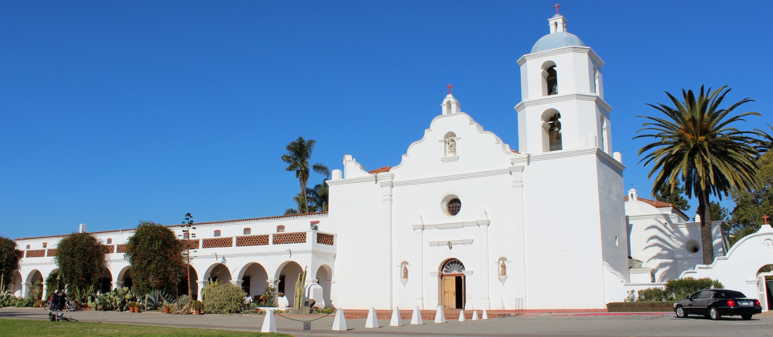 Oceanside, CA USA - Mission San Luis Rey De Francia, 1798